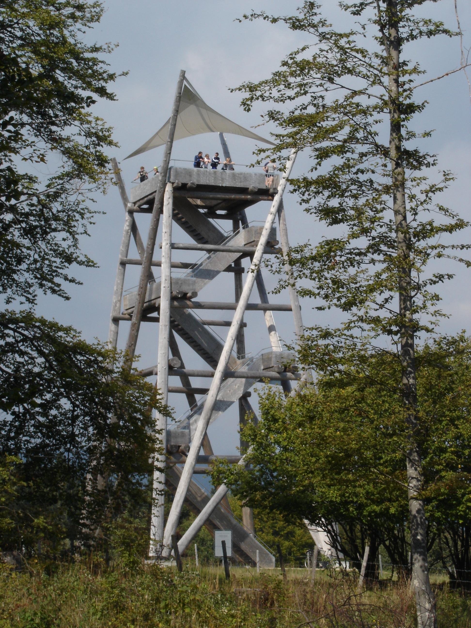 Lothurm in Hohmatt / Lamboing